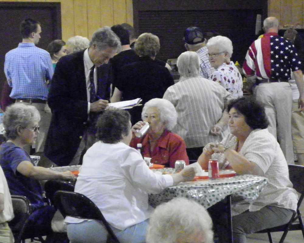 Virgil Goode collects signatures for his petition to appear on the Virginia ballot for the 2012 presidential election.